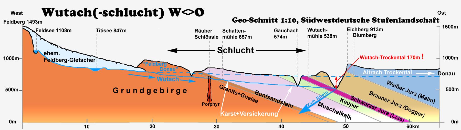 Schematic overview of the outcrops of all geological strata in south west Germany. The enormous holocene erosion of the Wutach River is a most prominent example for geology in situ.